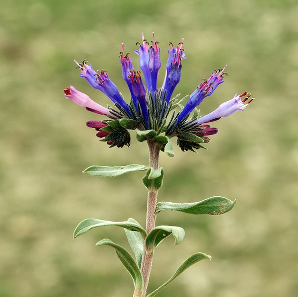 Moltkia caerulea (Willd.) Lehm. in Azerbaijan, near Zajam